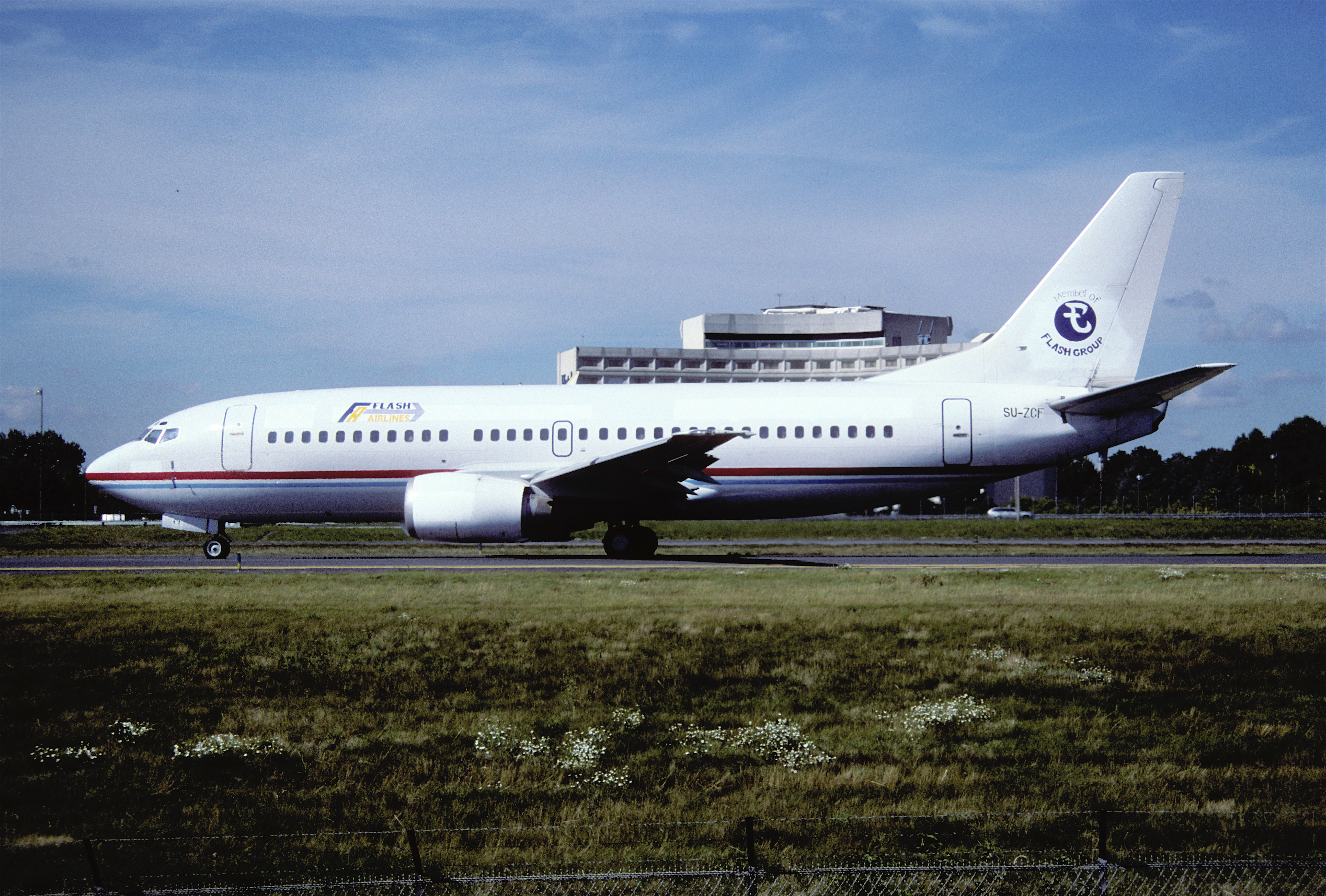 First flight: October 9, 1992... 22/10/1992 TACA 28/05/1998 Color Air G-COLB 22/11/1999 ILFC N161LF 21/04/2000 Heliopolis Airlines SU-ZCE 17/05/2000 ILFC N221LF 10/07/2000 Mediterranean Airlines SU-MBA 23/06/2001 Heliopolis Airlines SU-ZCF 22/07/2001 Flash Airlines SU-ZCF This aircraft crashed into the Red Sea after take off from Sharm el Sheikh, Egypt, on January 3, 2004 killing all 142 passengers, many of them French tourists, and all 6 crew members. Flight 604 - destination Paris Charles de Gaulle - has the highest death toll of any aviation accident in Egypt, and the highest death toll of any accident involving a Boeing 737-300. In 2002 Swiss aviation authorities performed a surprise inspection on SU-ZCF, a Flash Airlines Boeing 737-300. They discovered missing pilot oxygen masks, a lack of oxygen tanks, and inoperable cockpit instruments. The Swiss grounded the aircraft until Flash repaired the plane. Several days later Switzerland banned Flash. In addition, Poland banned Flash. Tour operators in Norway ceased contracting with Flash. The crash of Flight 604 led to an investigation that exposed poor safety measures and helped lead to the folding of Flash.